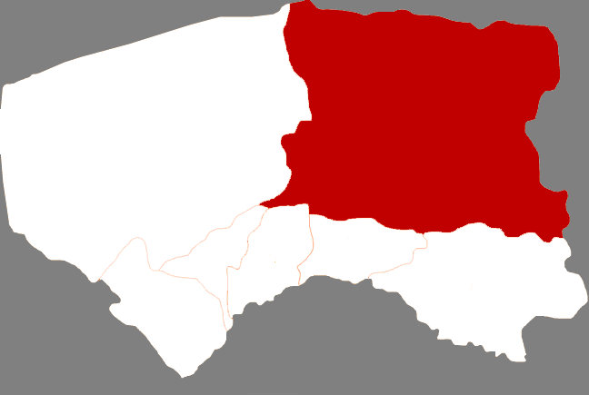 Locator map of Urat Middle Banner in Bayan Nur, Inner Mongolia, China